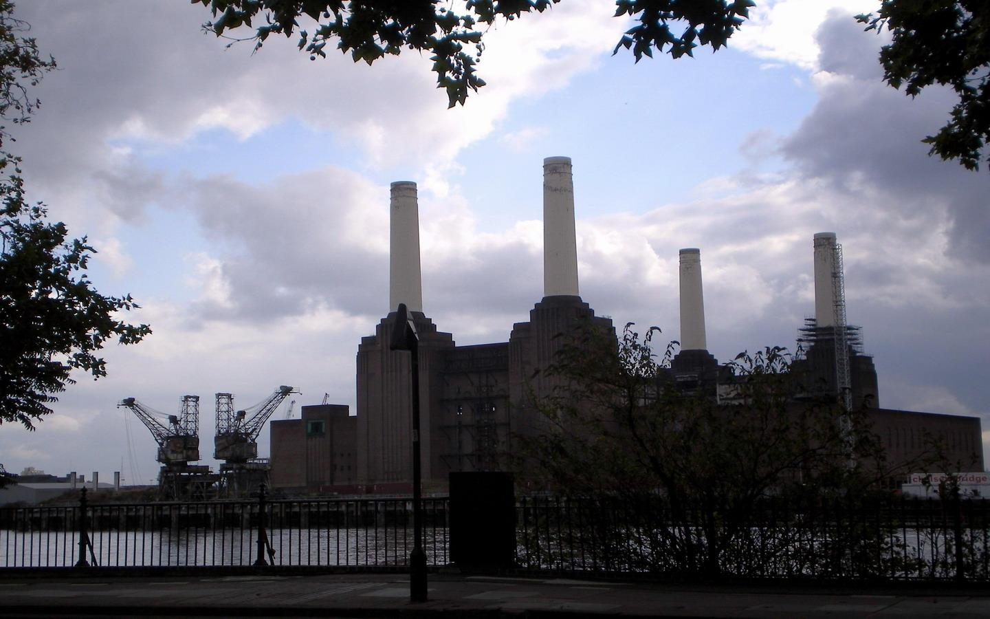 Battersea Power Station seen from Grosvenor Road (London, England, Europe)